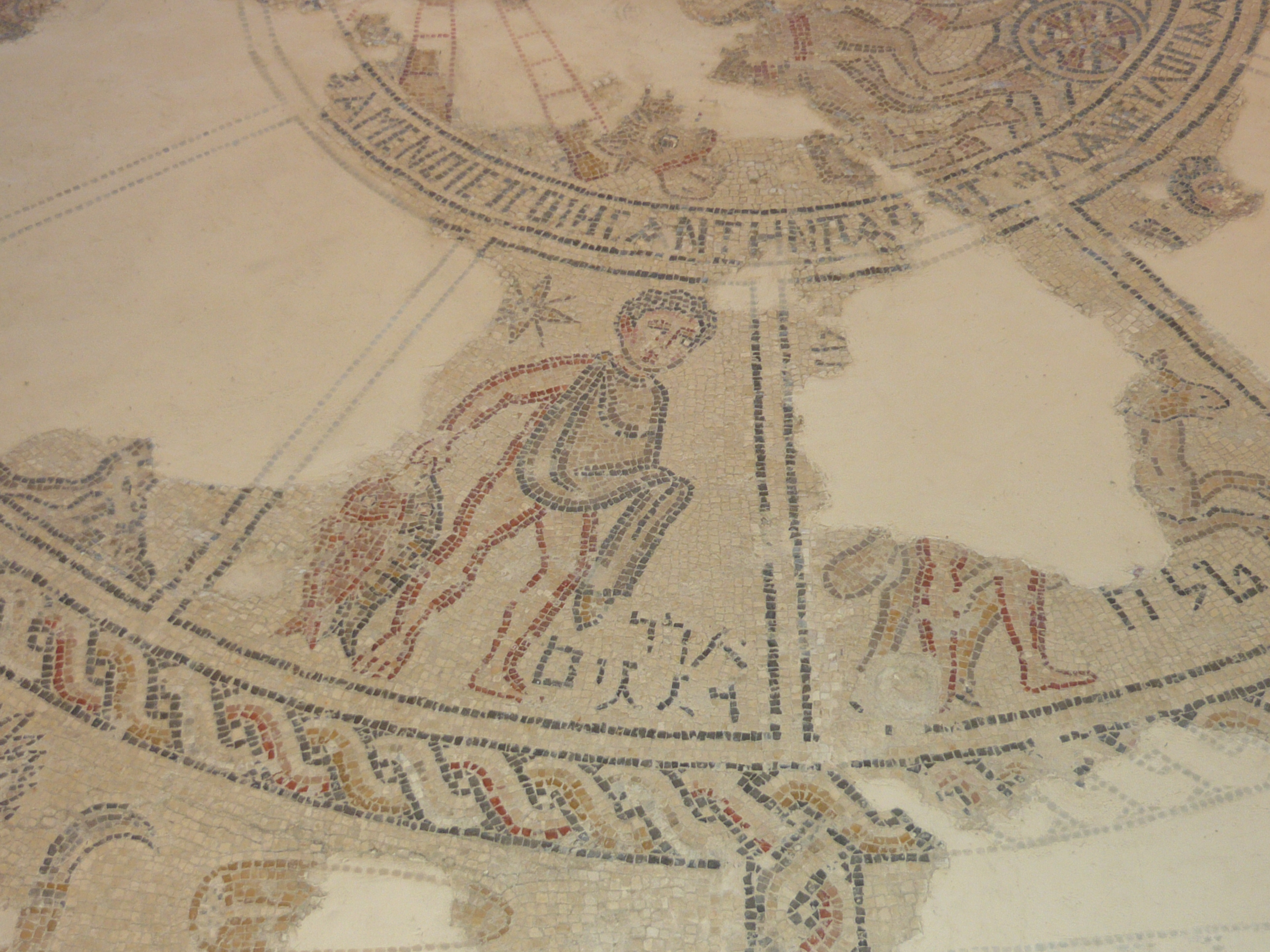 astrological sign pisces month of Addar. detail from a mosaic of the zodiac in ancient zippori מזל דגים, חודש אדר, פרט מפסיפס גלגל המזלות בבית הכנסת העתיק בציפורי